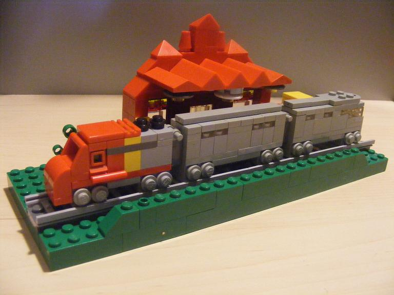 The Santa Fe train in miniature.